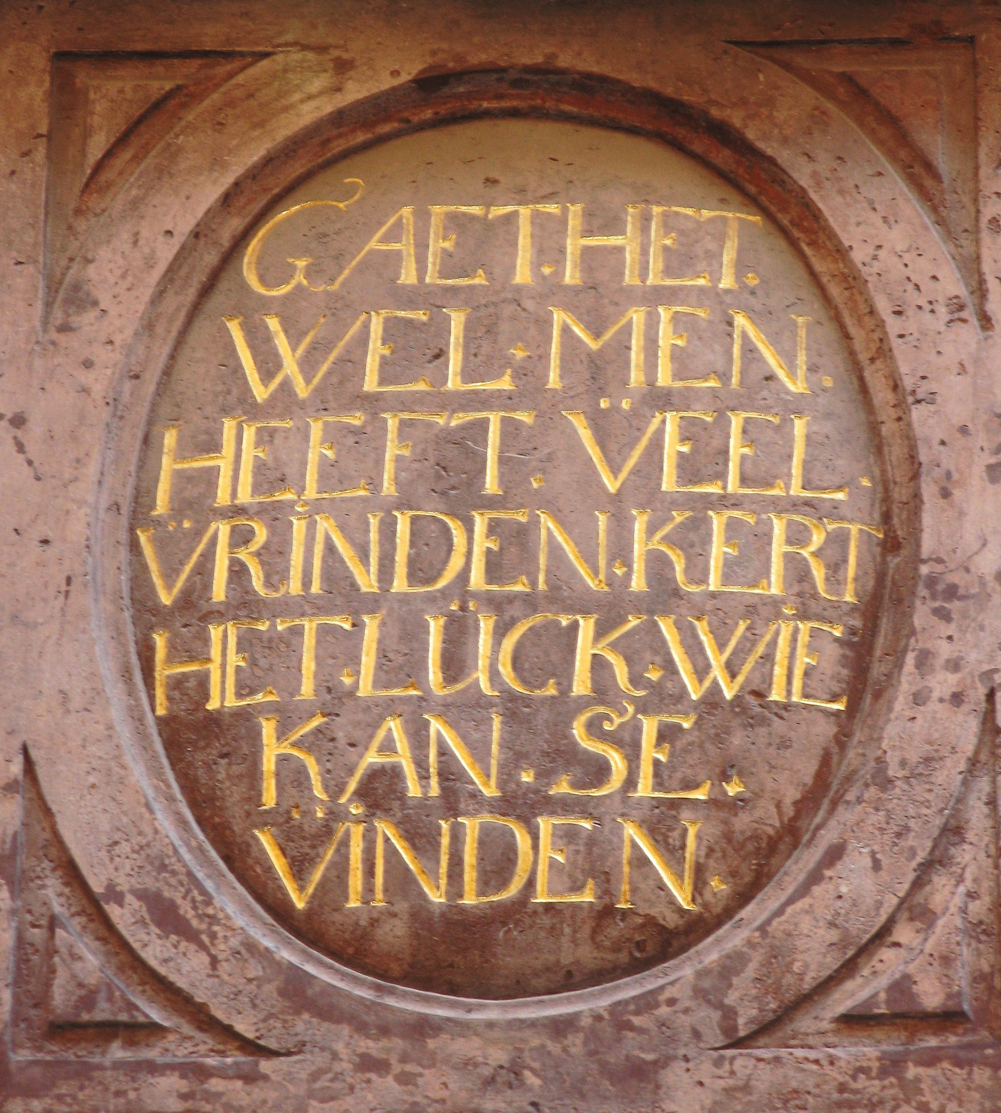 Dutch-language gable stone from Österlånggatan, Stockholm, reading: "Gaet het wel men heeft veel vrinden kert het luck wie kan se vinden" Photographed 5 July 2006